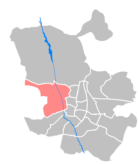 Locator maps of districts in Madrid: Maps - ES - Madrid - Moncloa-Aravaca.PNG